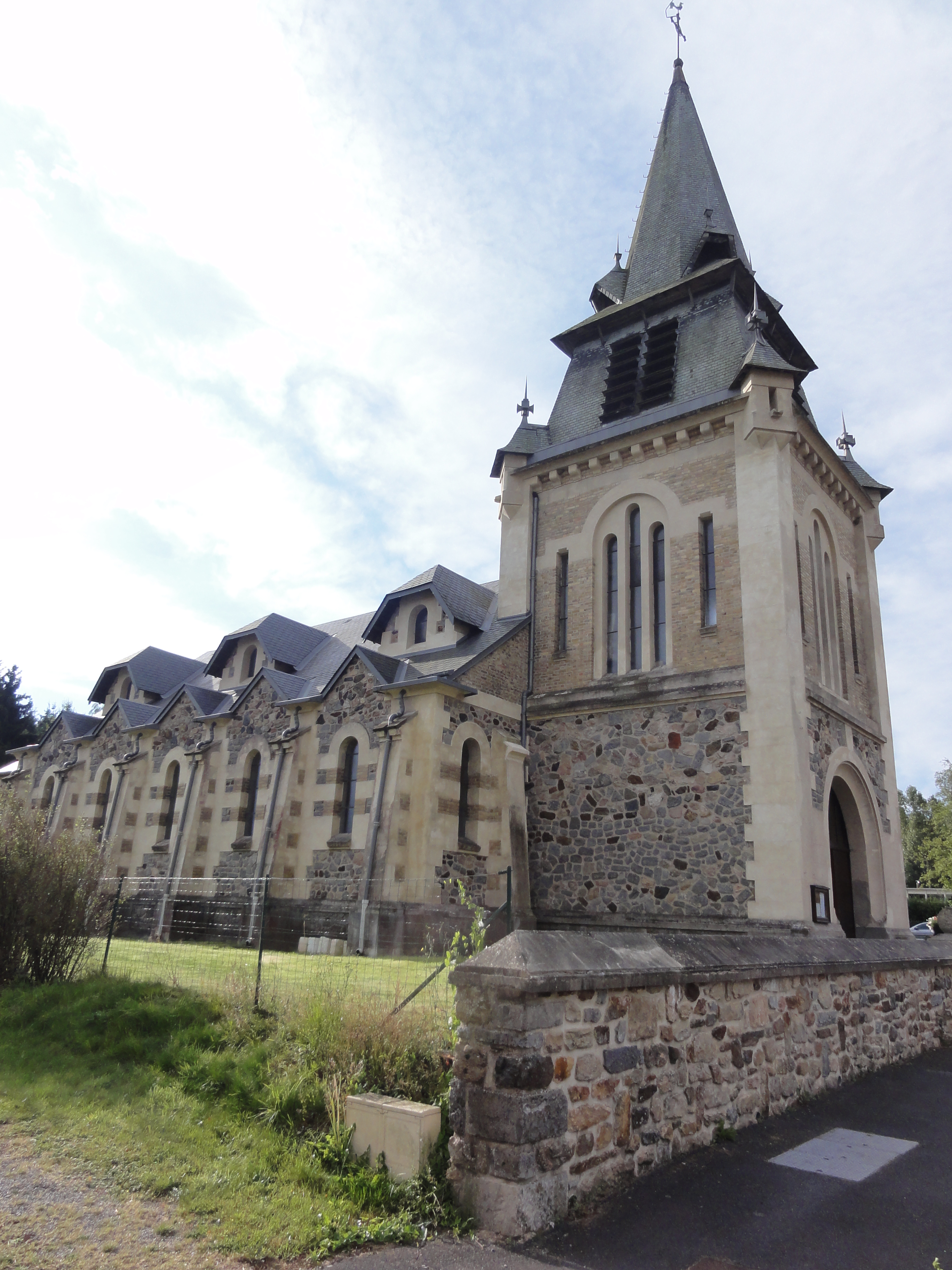 Gué-d'Hossus (Ardennes) église, vue du nord-ouest